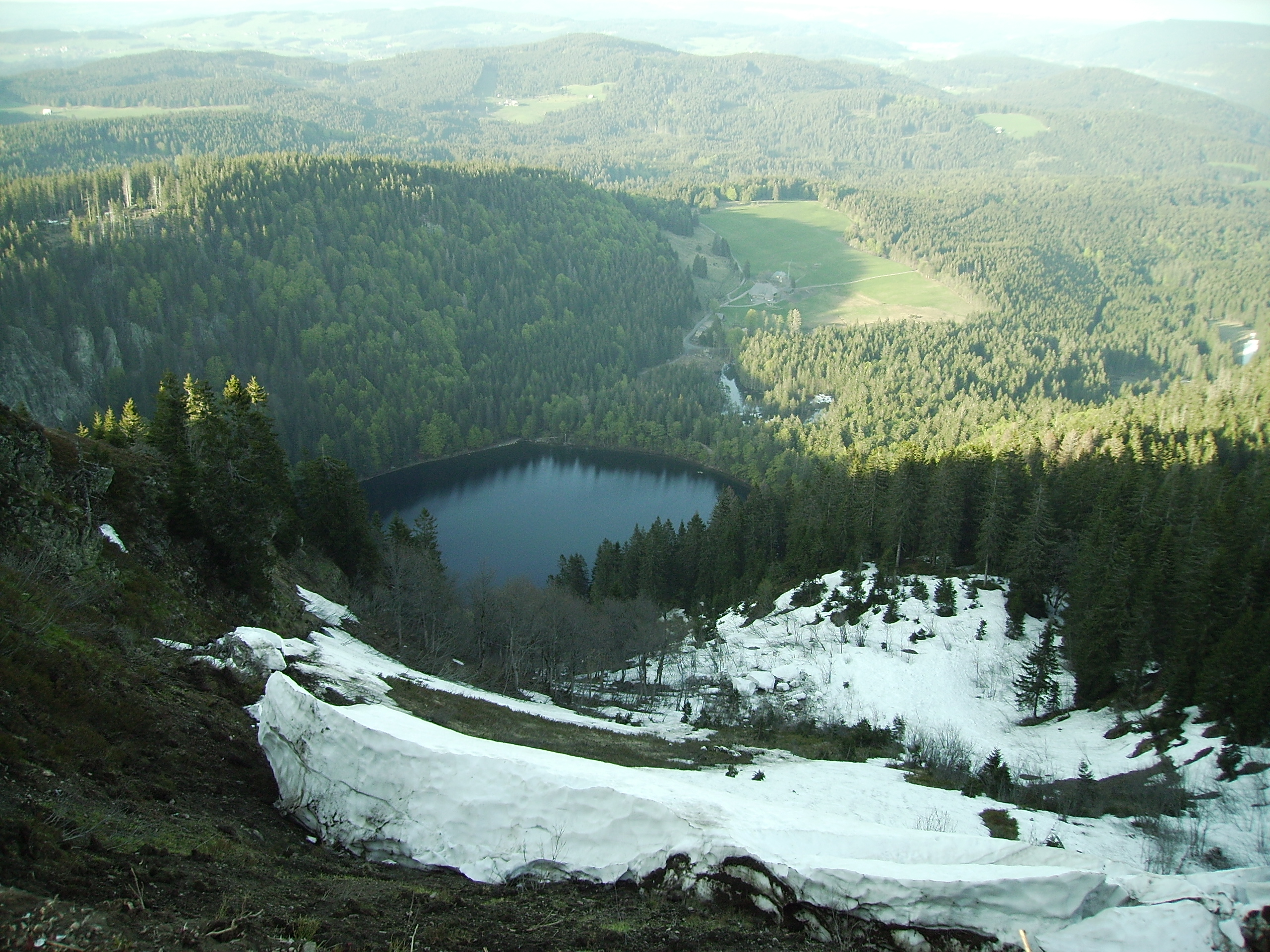 Feldseekessel, Blick auf den Feldsee vom Seebuck aus view on the Feldsee, taken from the Seebuck (mountain near Feldberg, black forest